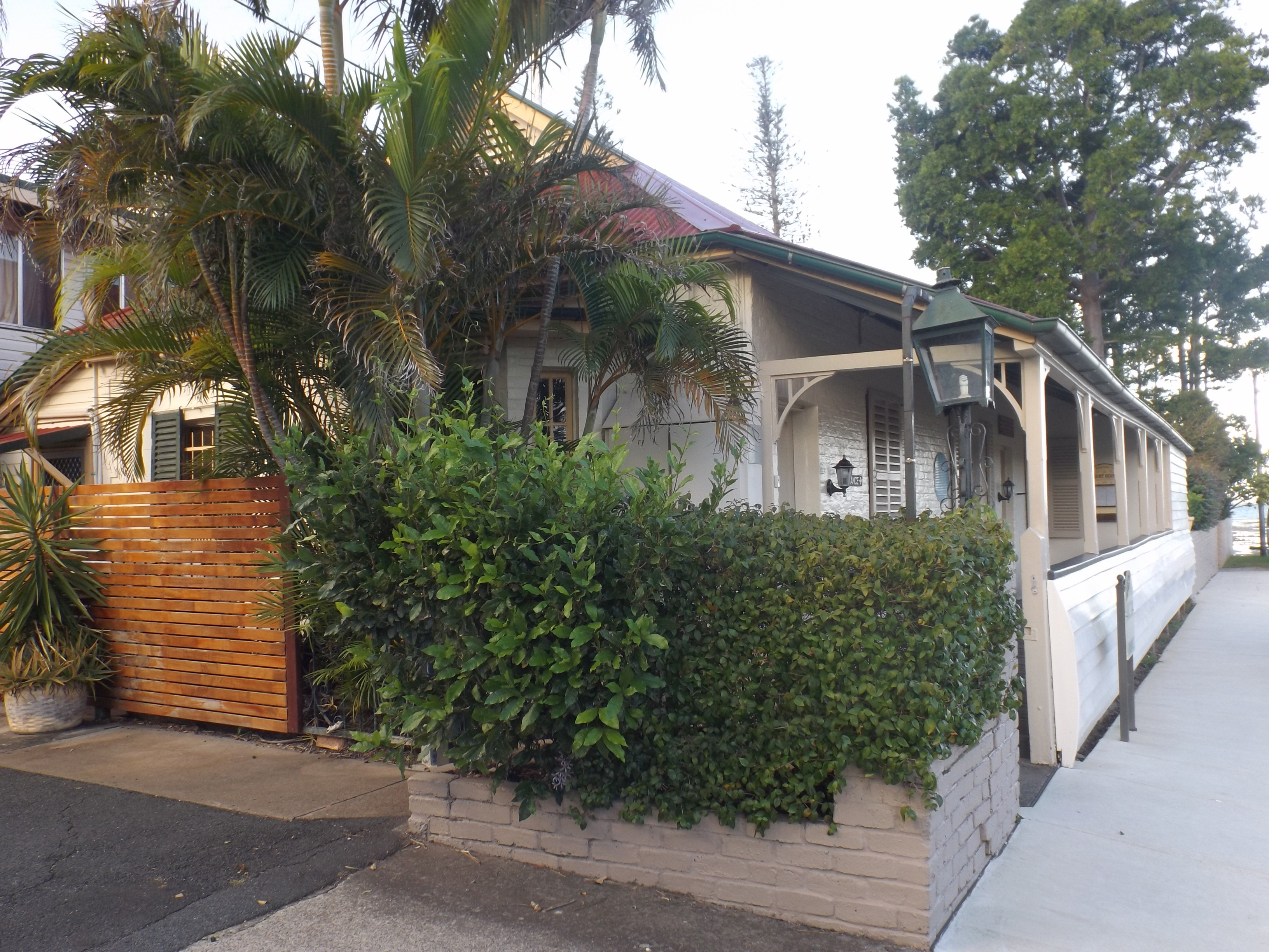 Photo of Old Cleveland Court House (now a restaurant) at Cleveland, City of Redland, Queensland, Australia.